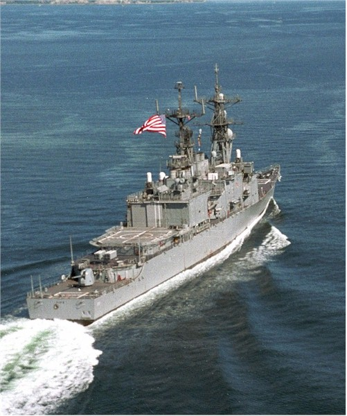 The destroyer USS Fife (DD 991) was on scene at the crash of Alaskan Air Flight 261 to assist in search and rescue operations Jan. 31 through Feb 2 2002. This image is from 24 Aug. 1999 and shows the ship underway in Puget Sound. U.S. Navy photo.